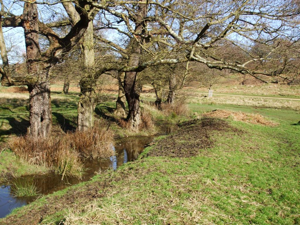 Alders growing along the bank of Sudbrook, near Ham Gate, Richmond Park. The high water level seen here followed the period of high rainfall and widespread flooding in early 2014.